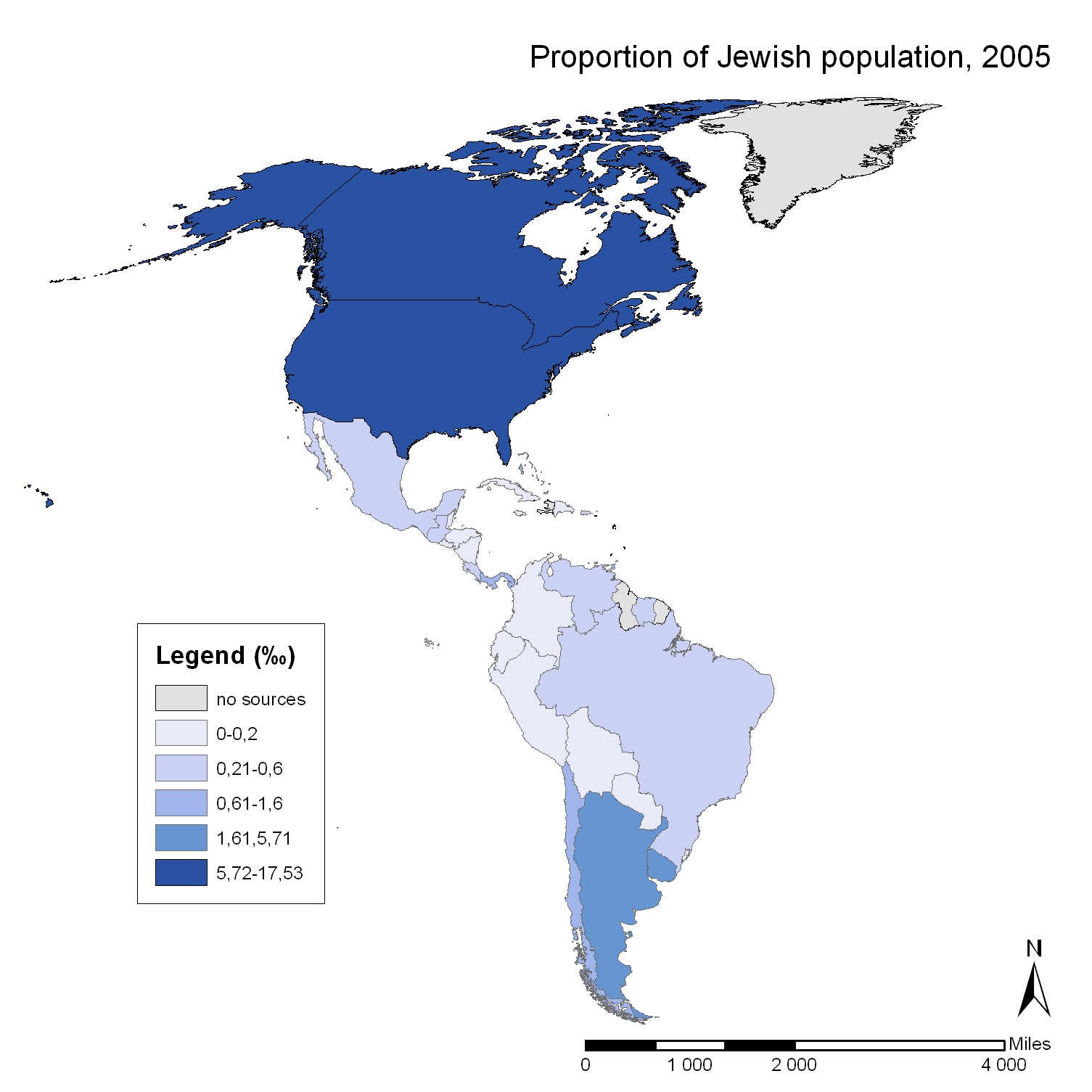 Proportion of Jewish population in America